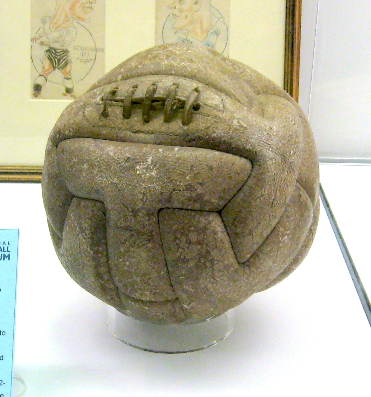 Football used in the 1930 World Cup Final on display at the National Football Museum, Preston. Due to a dispute between the teams, two balls were used in the final, one in each half. This ball, chosen by the Uruguayan team, was used in the second half.